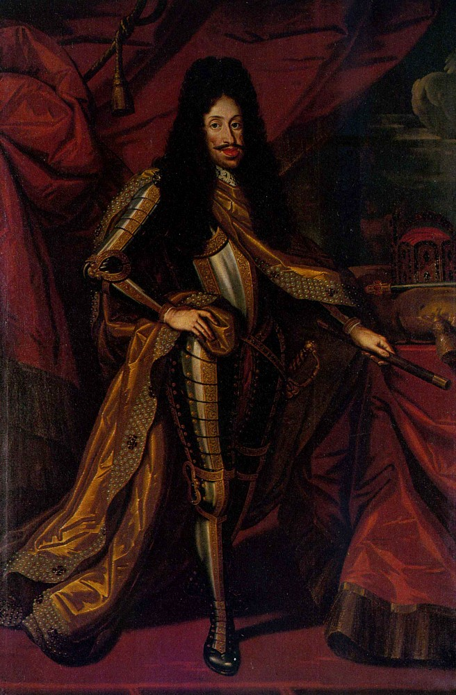 emperor leopold